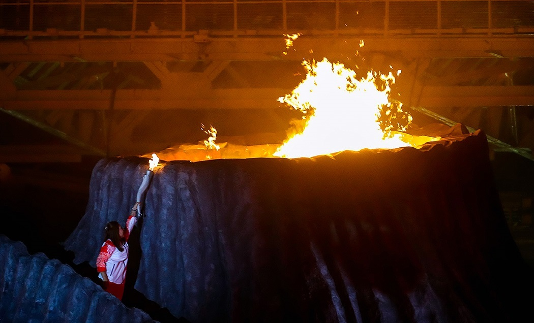 2018 Asian Games opening ceremony